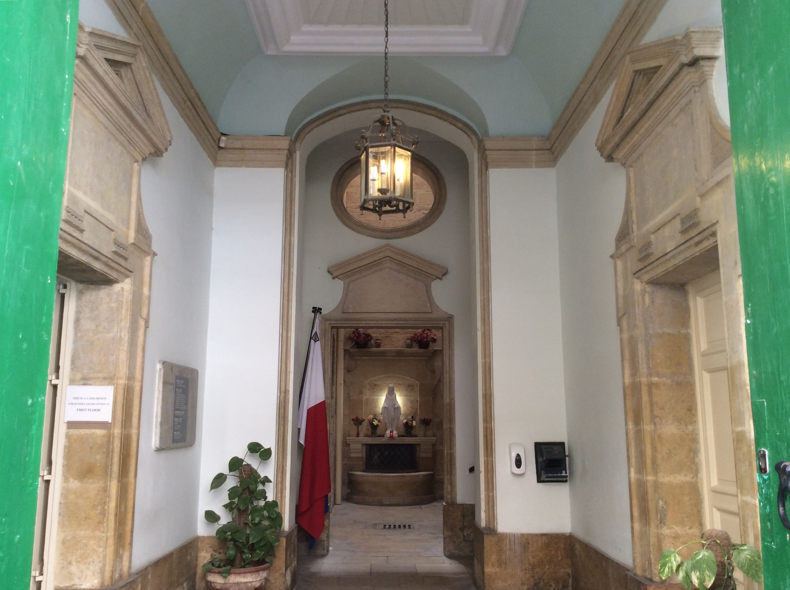 Mount of Piety entrance, Valletta